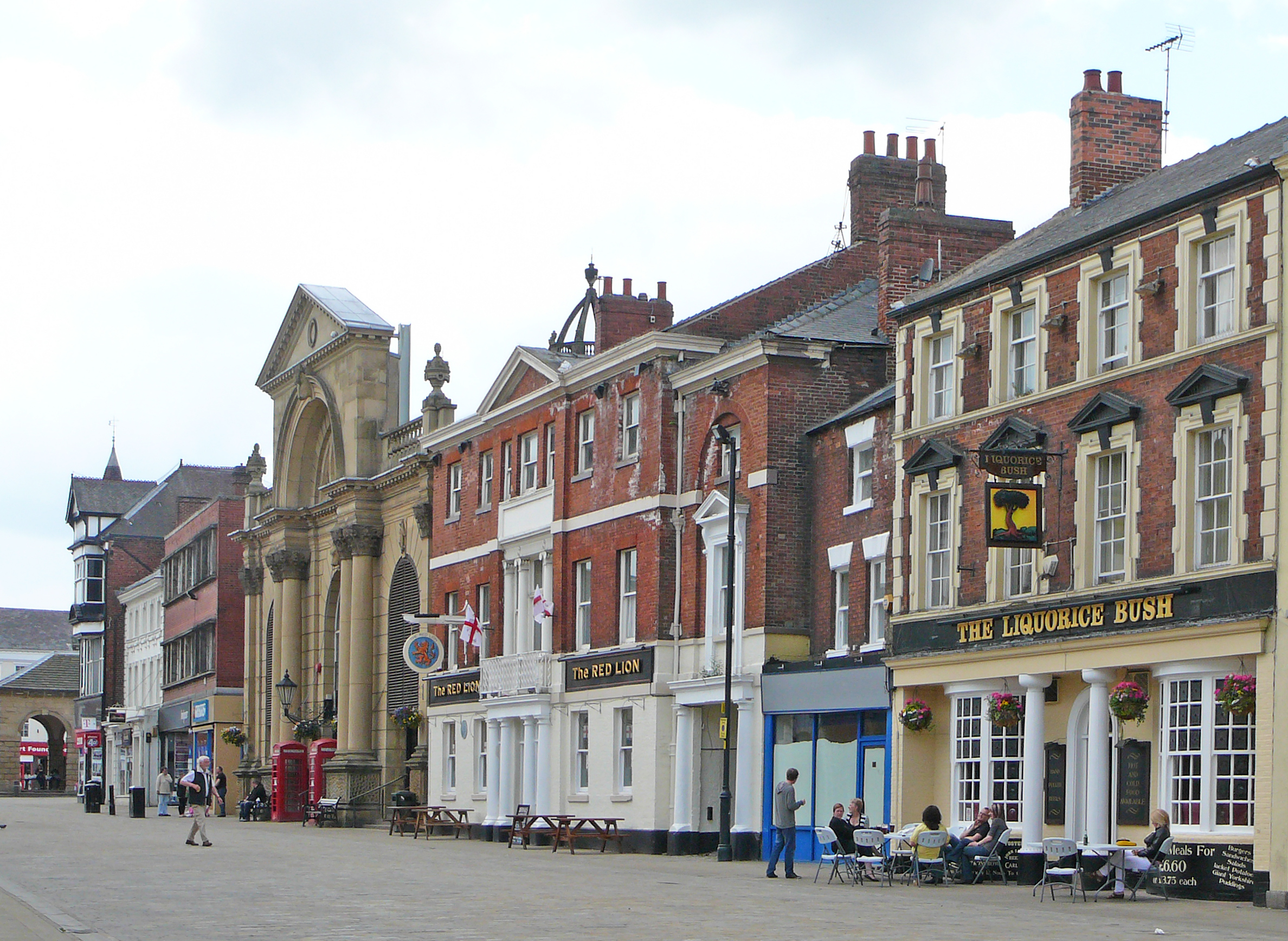 Market Place in Pontefract, West Yorkshire. Taken on Monday the 31st of May 2010.